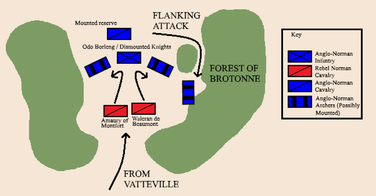 The battle of Bourgthéroulde fought between the forces of Henry I of England led by Odo Borleng and Norman rebels led by Waleran de Beaumont.